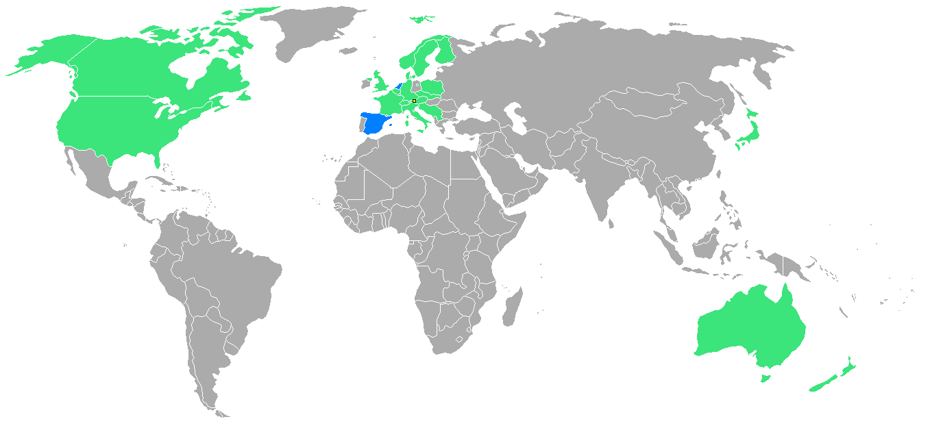 Countries which participated in the 1984 Winter Paralympics, derived from blank world map. Blue = Participating for the first time Green = Have previously participated. Yellow square is host city (Innsbruck).